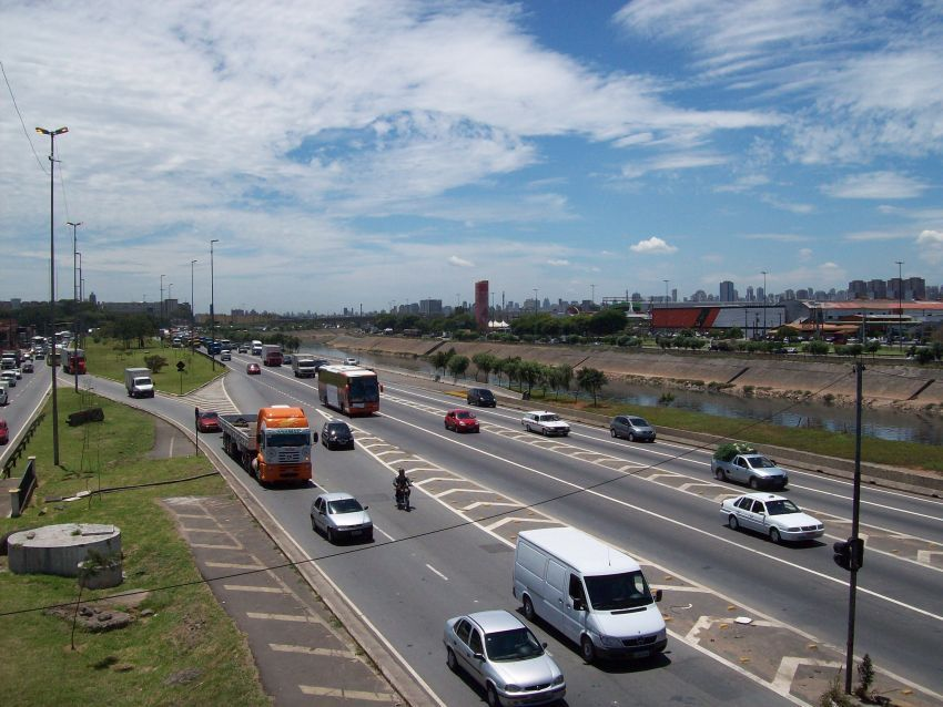 Marginal Tietê in São Paulo City.